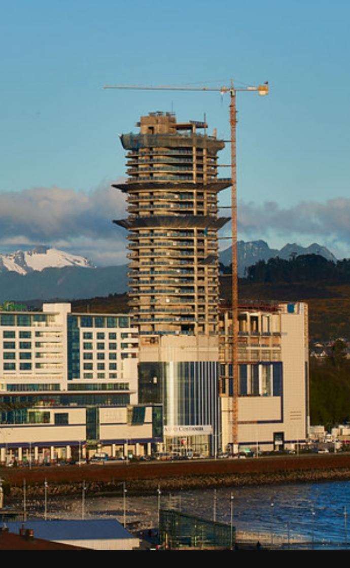 Se puede ver en construcción la Torre principal de la ampliacion del mall paseo costanera